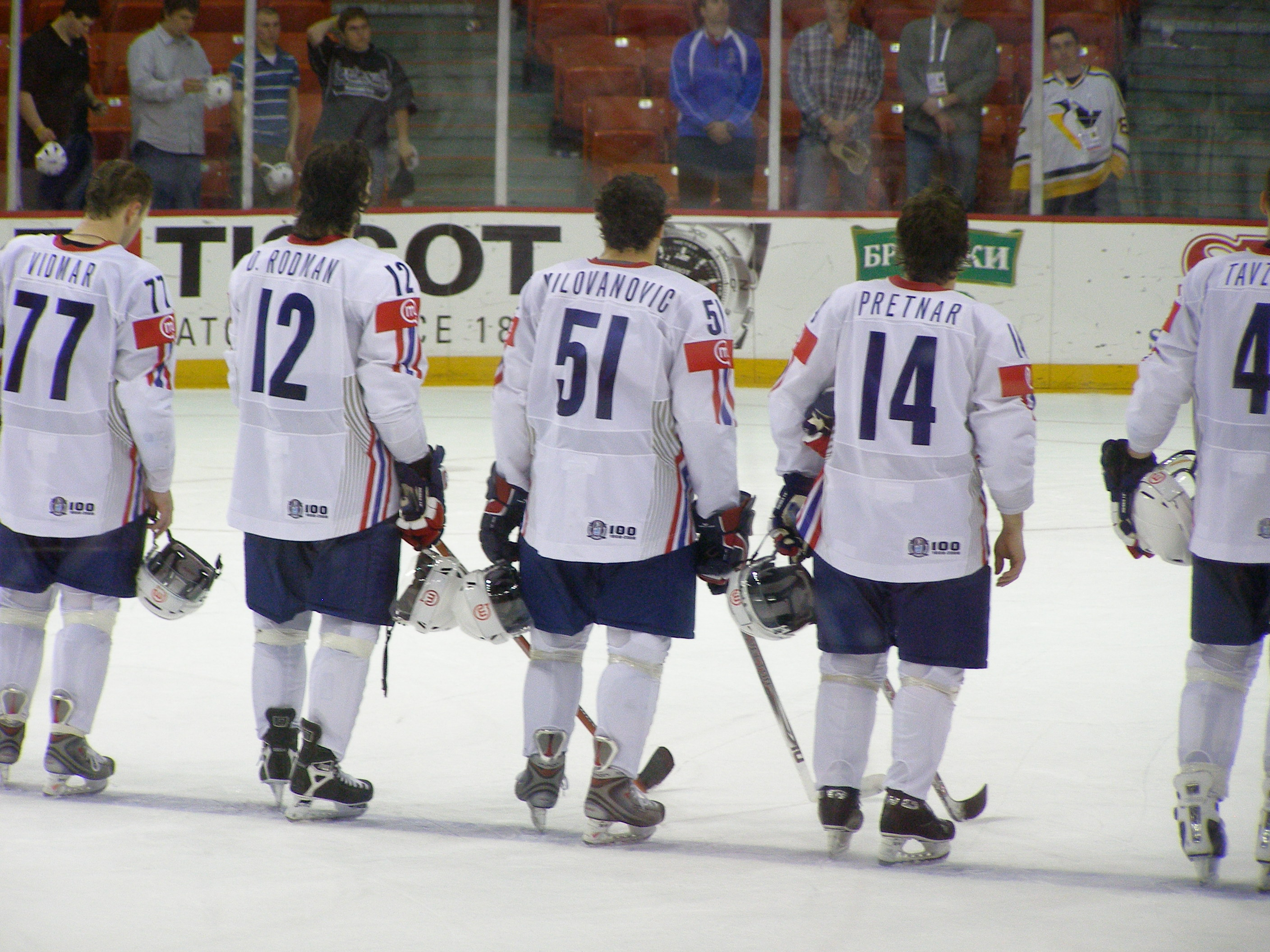 Slovenia VS USA (IIHF World Hockey Championship in Halifax NS, May 4 2008)